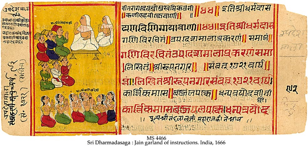 [1] MS in Jain Prakrit and Old Gujaranti on paper, Rupnagar, Rajastan, India, 1666, 76 ff. (-16 ff.), 11x25 cm, single column, (10x22 cm), 4 lines main text, 2-4 lines of interlinear commentary for each text line, in Jain Devanagari book script, filled with red and yellow, 17 paintings in colours mostly of Svetambara monks influenced by the Mughal style. The text is a Prakrit didactic work of how best to live a proper Jain life, aimed probably at the laity. The Svetambara pontiff Sri Dharmadasagaî lived mid 6th c. The Old Gujarati prose commentary was written in 1487. The colophon gives the place and date, and the name of the religious leader Sri Namdalalaji on whose order the work was transcribed.